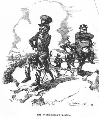 "The White (?) Man's Burden". Satire of Kipling's phrase shows the "white" colonial powers being carried as the burden of their "colored" subjects. First printed in Life, March 16, 1899.